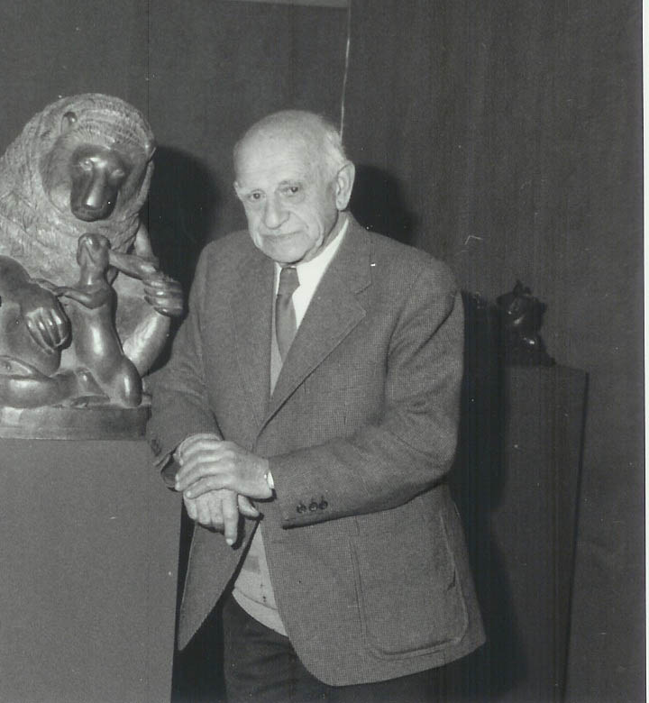 Josep Granyer at Sala Dalmau. Barcelona, 1981.